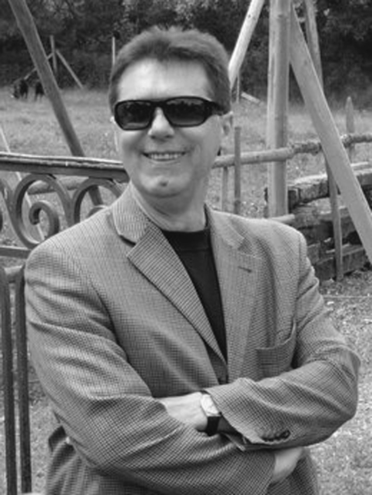 Josef Bátora – Slovak archaeologist, scientist and educationist